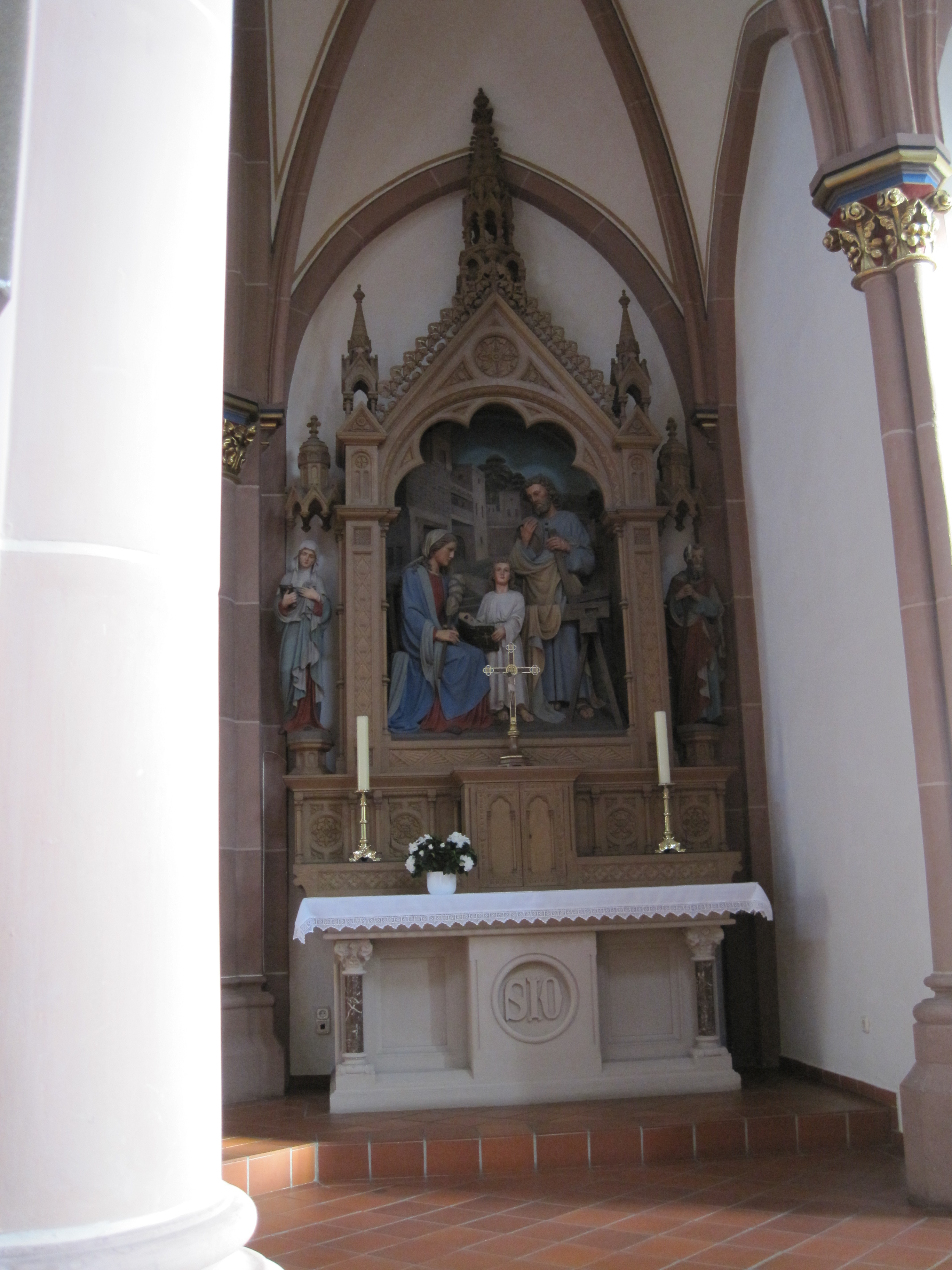 St Bartholomew Church Meggen, Lennestadt, Germany check usage